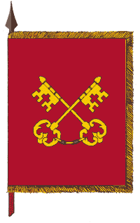 arms of saint peter